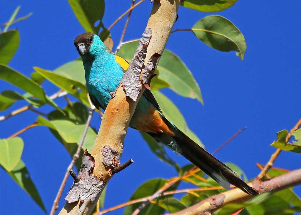 A male Hooded Parrot, about 30 km south of Pine Creek, Northern Territory, Australia.